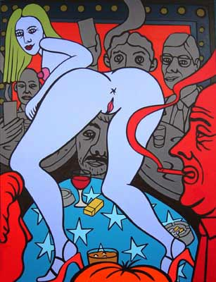 Strip Club by Charles Thomson Copyright © Charles Thomson, . Released under GFDL. GFDL applies to this file only, not the original image. The moral right of the author is asserted. Apply for other permission or higher file size.